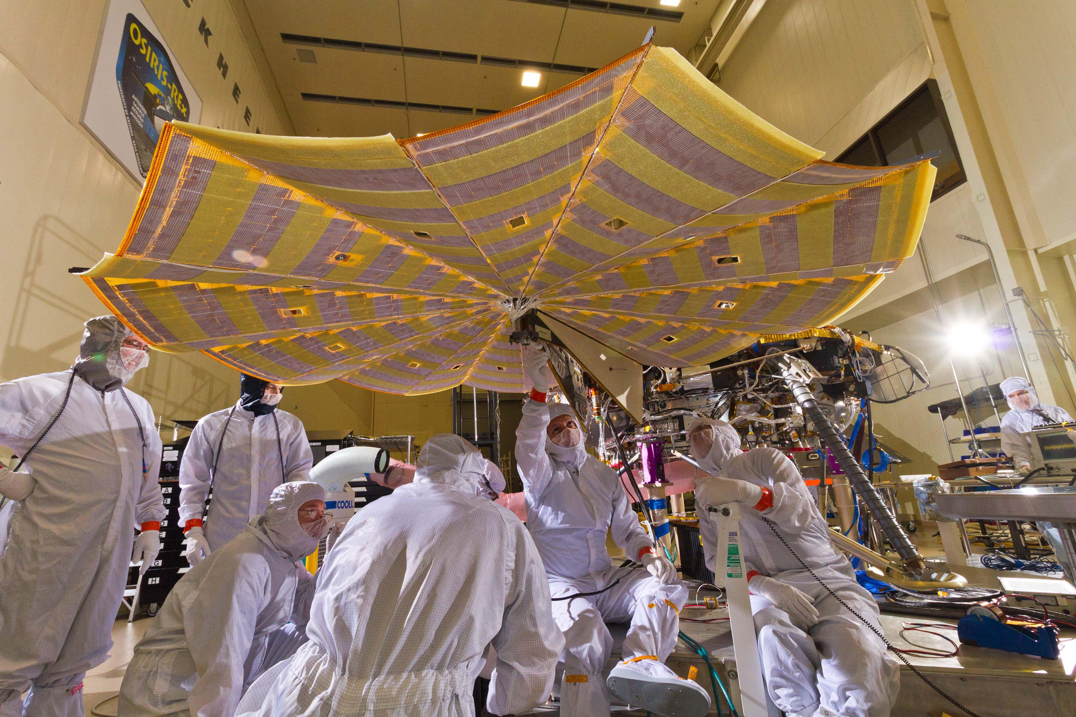 PIA19665: Solar-Array Deployment Test for InSight Engineers and technicians at Lockheed Martin Space Systems, Denver, run a test of deploying the solar arrays on NASA's InSight lander in this April 30, 2015 image. InSight, for Interior Exploration Using Seismic Investigations, Geodesy and Heat Transport, is scheduled for launch in March 2016 and landing in September 2016. It will study the deep interior of Mars to advance understanding of the early history of all rocky planets, including Earth. The InSight Project is managed by NASA's Jet Propulsion Laboratory, Pasadena, California, for the NASA Science Mission Directorate, Washington. InSight is part of NASA's Discovery Program, which is managed by NASA's Marshall Space Flight Center in Huntsville, Alabama.